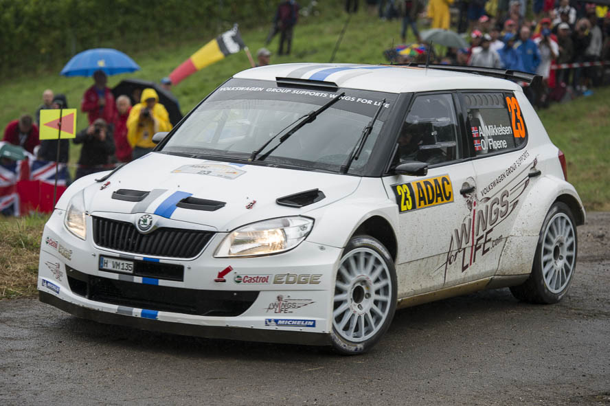 Rally Germany 2012 ADAC Rallye Deutschland,Andreas Mikkelsen,Motorsport,Ola Floene,Rally,Rallye,Rallye Deutschland,SS7,Skoda Fabia S2000,Stein & Wein 1,Volkswagen Motorsport,WP7,WRC